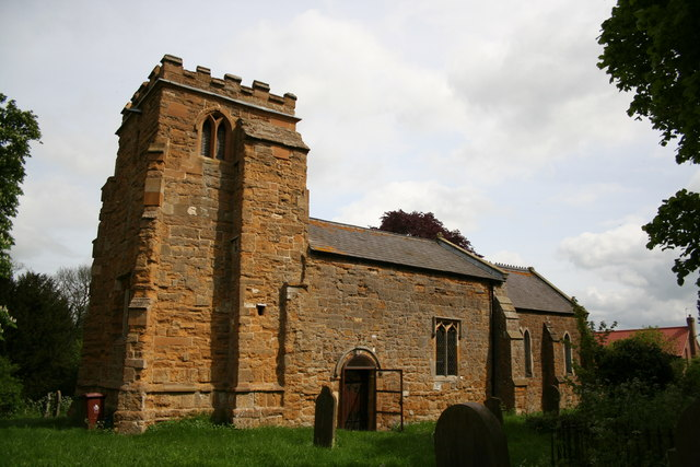 St.Mary's church, Hatcliffe, Lincs. Sturdy ironstone tower of c1300, the south door is late 12th century and a restoration of 1861-2